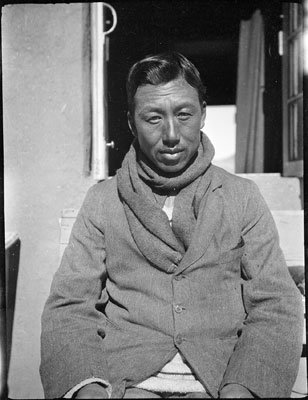 Bo Tsering, who worked for many years as the Sub-Assistant Surgeon in Tibet (Photo in Gyantse)